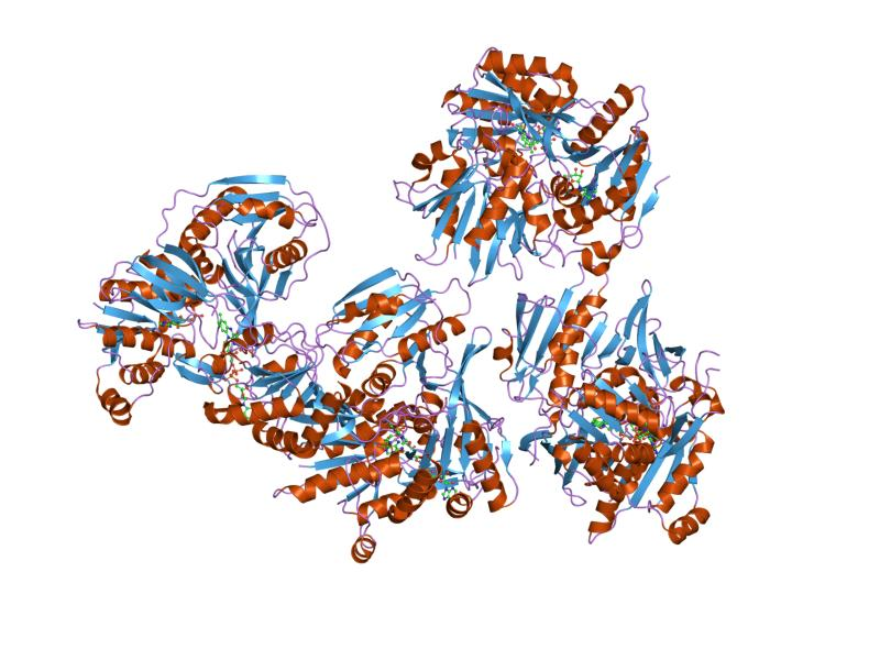 Cartoon representation of the molecular structure of protein registered with 1o96 code.